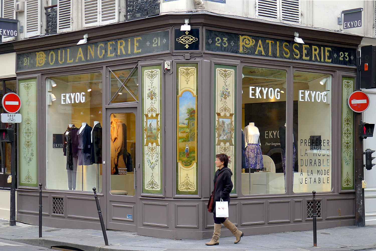 Shop at corner Sévigné and francs-Bourgeois streets - Paris